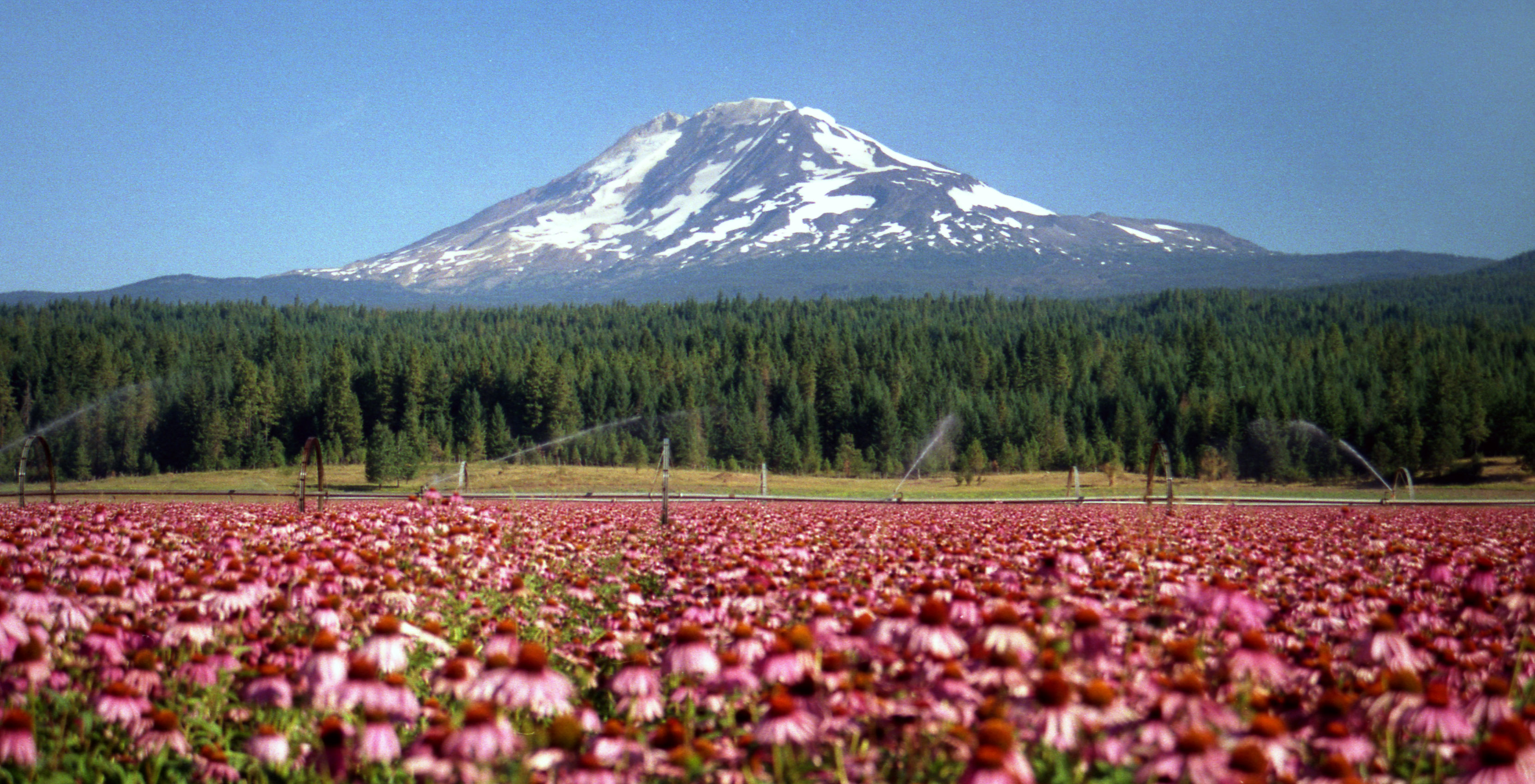 Mount Adams 3'742m, Washington, USA - with Echinacea fields of Trout Lake Farm